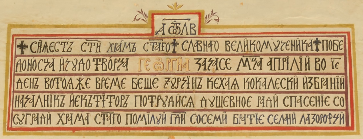 Entry of the St. George's Church in the village Lazaropole